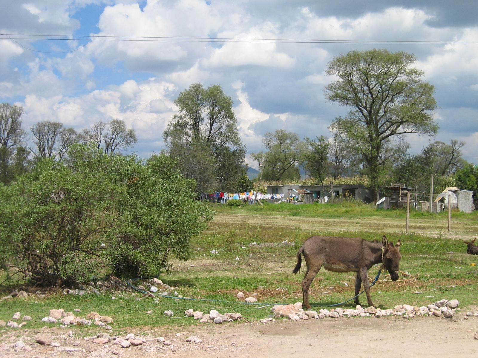 "Ejido" area in San Miguel Tocuila, Texcoco, Estado de Mexico, Mexico